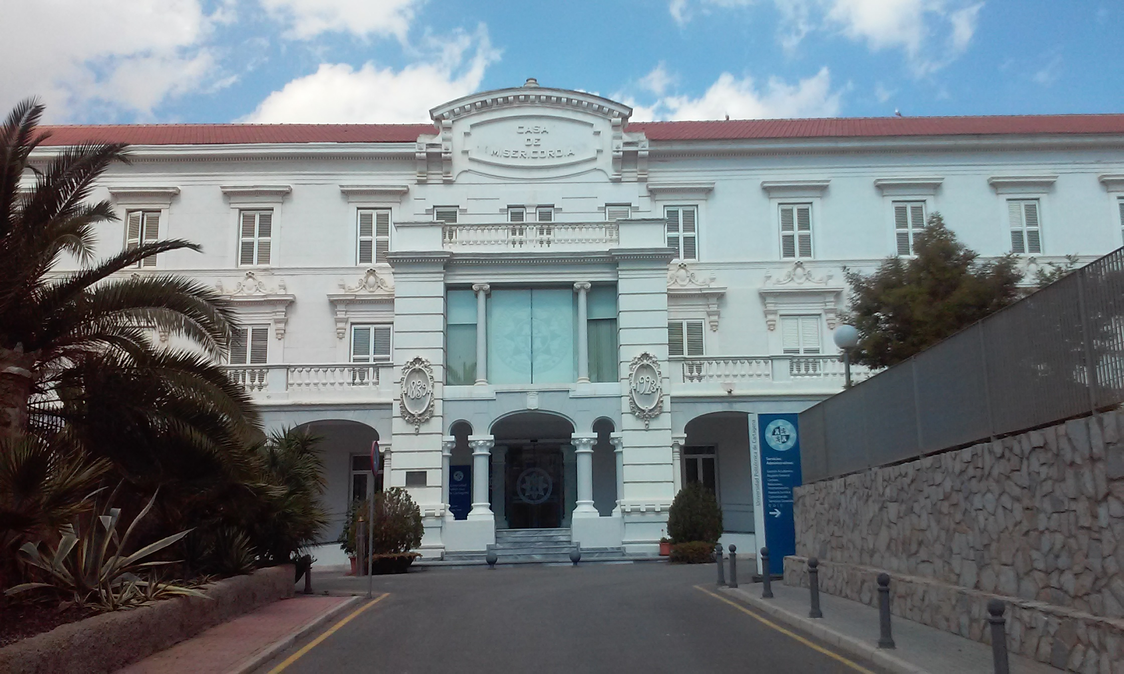 The Casa de Misericordia of the Spanish city of Cartagena (Region of Murcia), currently the rectorate of the Polytechnic University of Cartagena (Universidad Politécnica de Cartagena, UPCT).